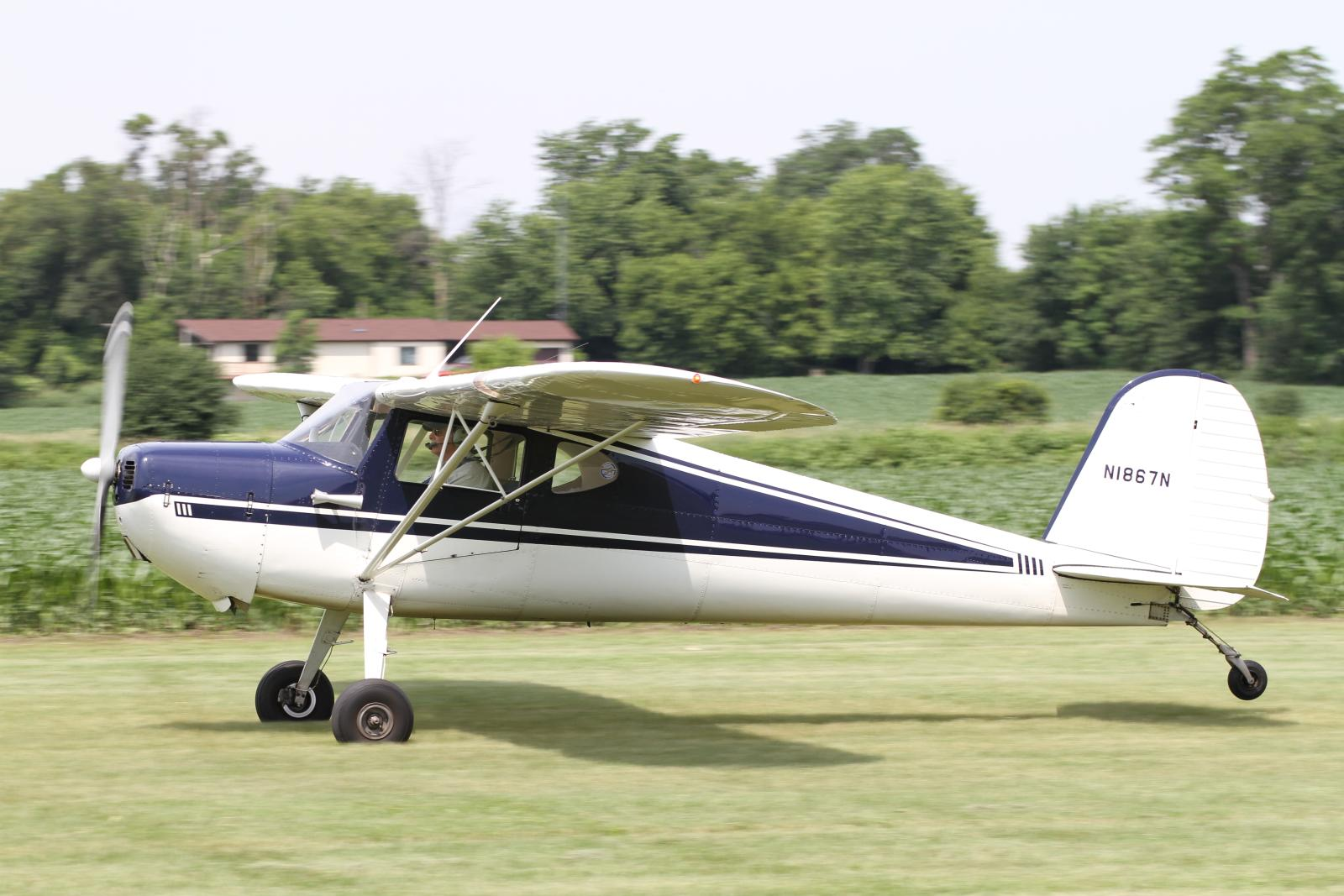 1946 Cessna 120 C/N 12111; Big Foot Fly-In, Walworth, Wisconsin, June 25th 2011